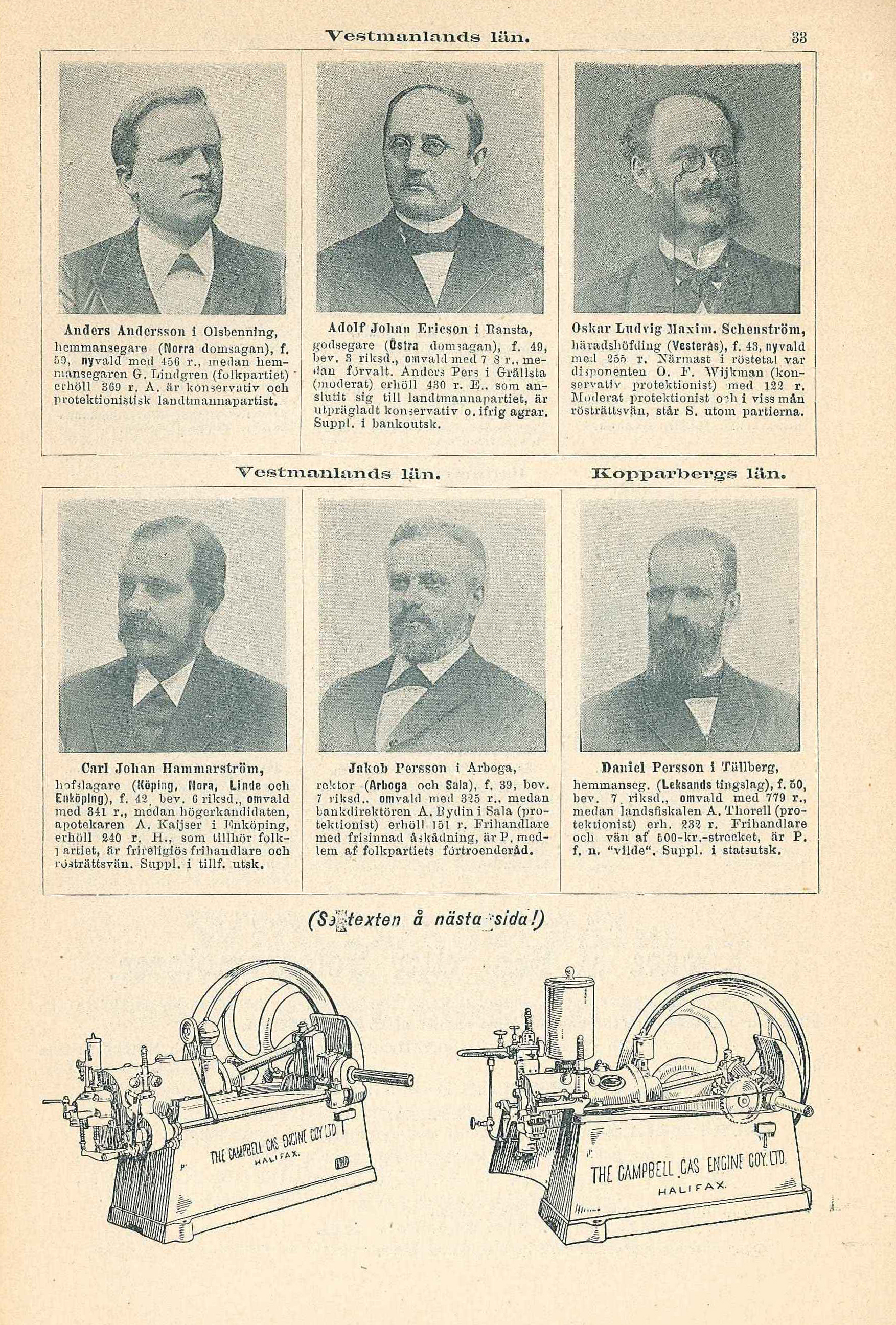 Page 33 of an album featuring portraits of all the members of the second chamber of the Swedish parliament (Sveriges riksdag) elected in 1897. This page featuring parts of the members representing the counties of Västmanland and Kopparberg.